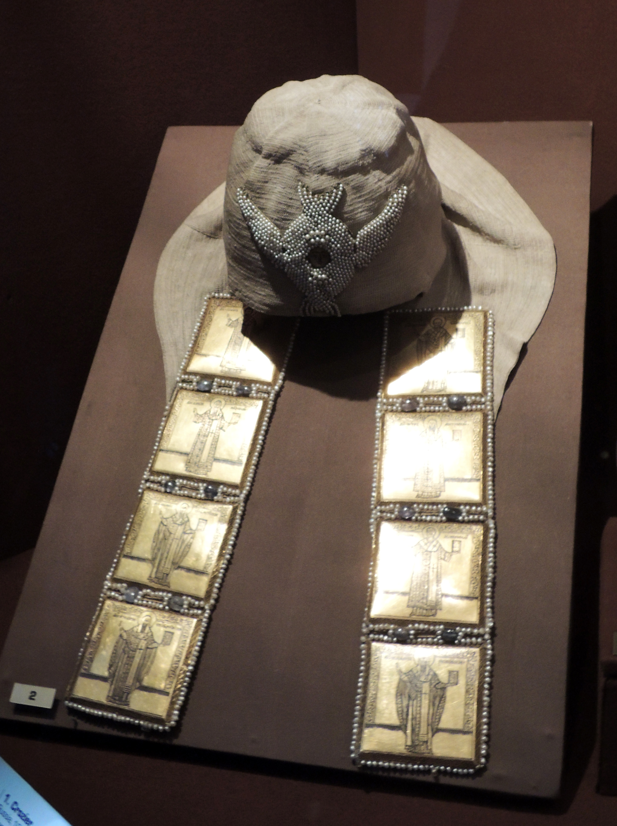 Klobuk (koukoulion--patriarchal headgear), Kremlin